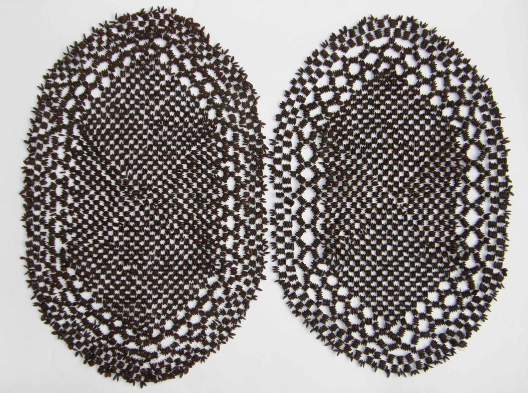 A pair of doilies made in the 1950s from apple seeds sewn together with a nylon thread.